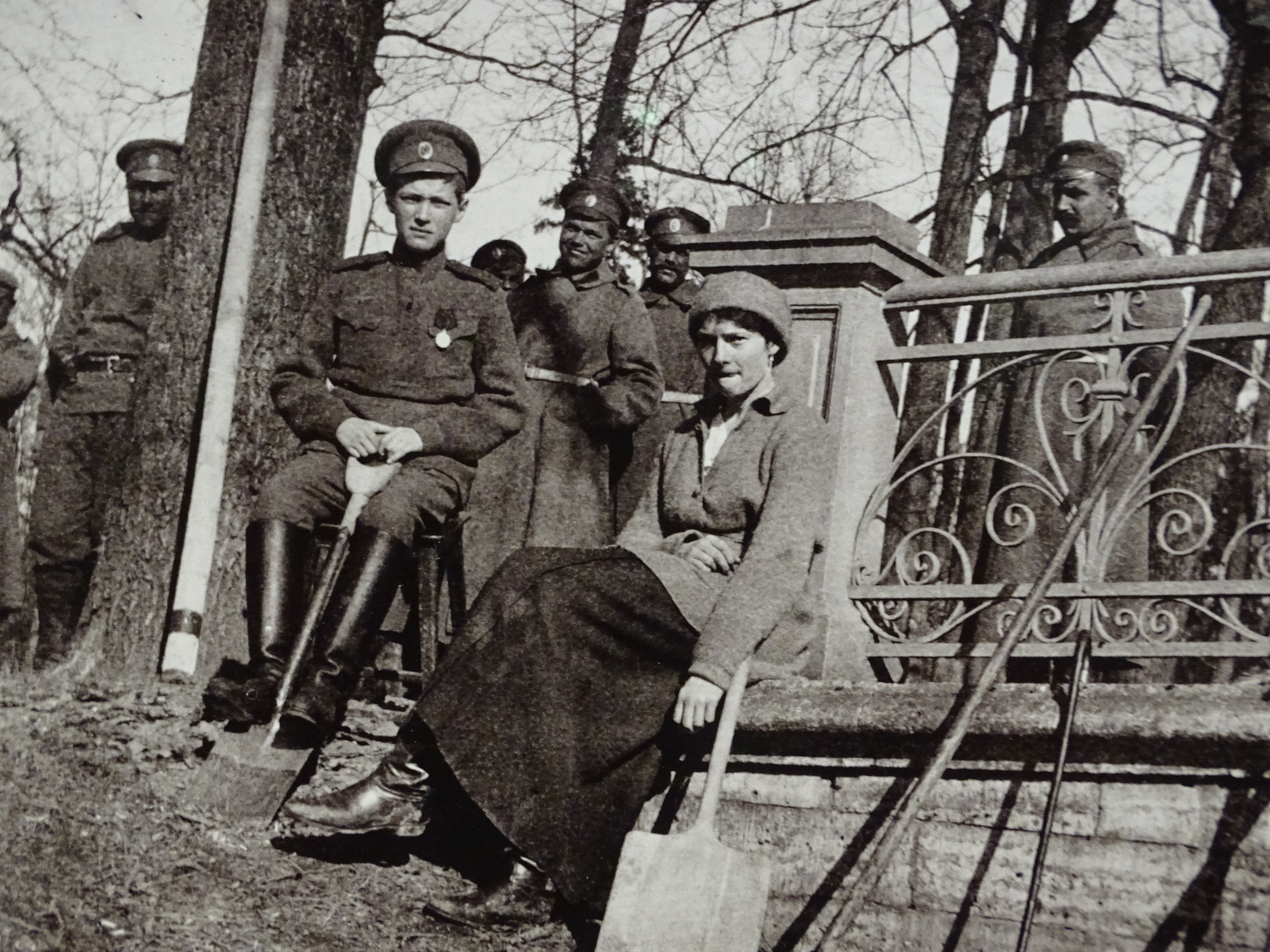 Alexis Nikolaevich, Tsarevich of Russia, and his sister, Grand Duchess Tatiana in the Park at Tsarskoe Selo. Photograph shows the prince and princess sitting (with shovels) in the foreground, Russian soldiers in the background. Alexei Nikolaevich and Tataiana Nikolaevna under House Arrest and strict Surveillance at the Edge of the Palace Grounds (Tsarskoe Selo, 1917) - Pierre Gilliard, The Last Days of the Romanovs, Fotomuseum